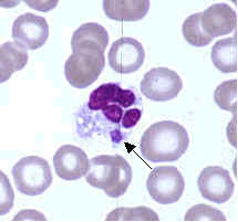 Morula in cytoplasme of a neutropil in a patient with ehrlichiosis